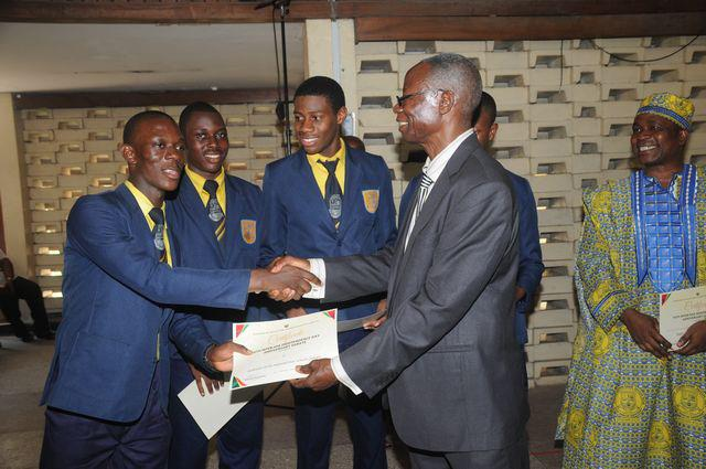 victory